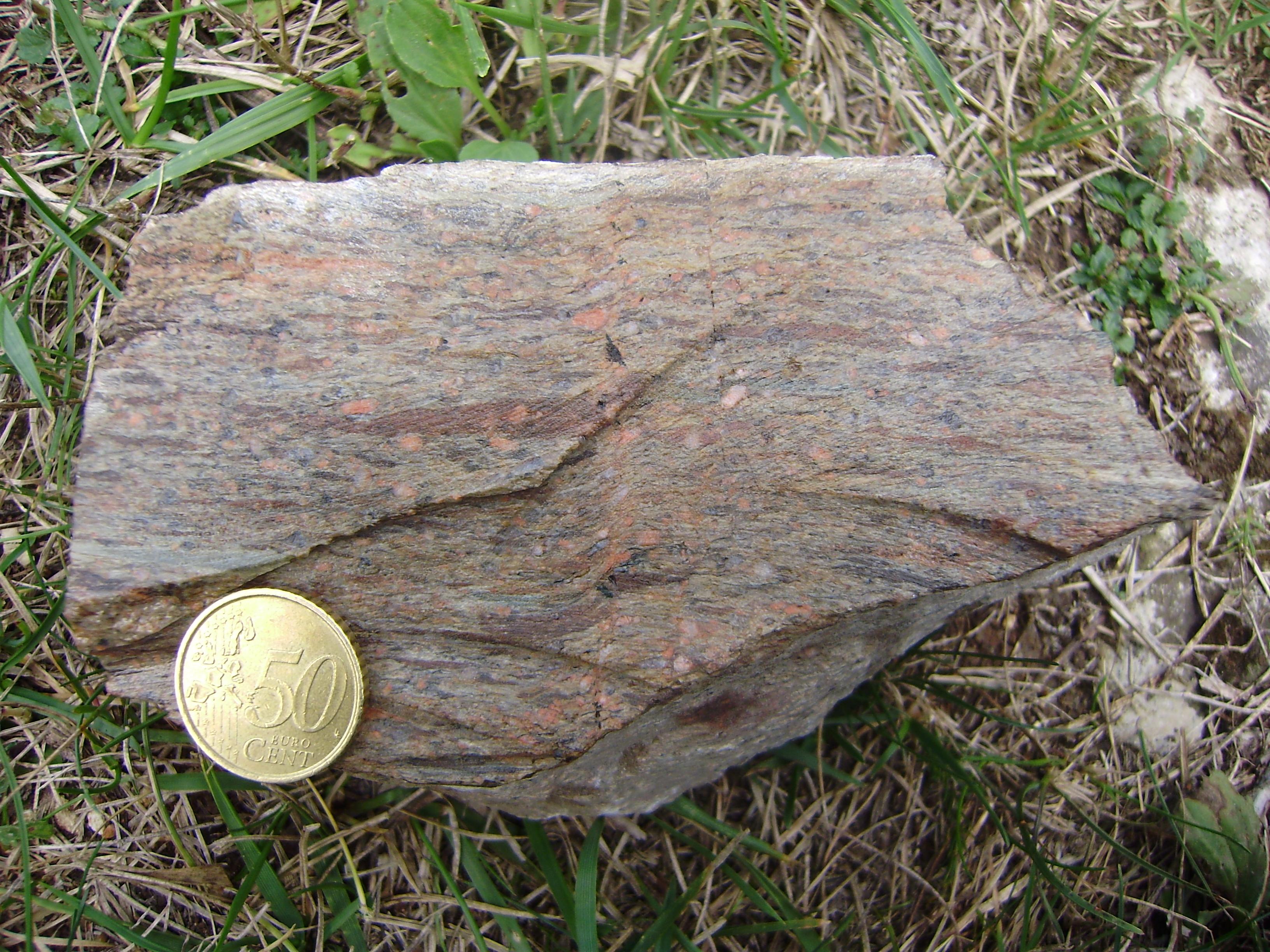 Sawcut of a lower Ordovician Génis porphyroid (metaignimbrite) from the Génis unit, northwestern Massif Central, France. The rock has been dextrally sheared.